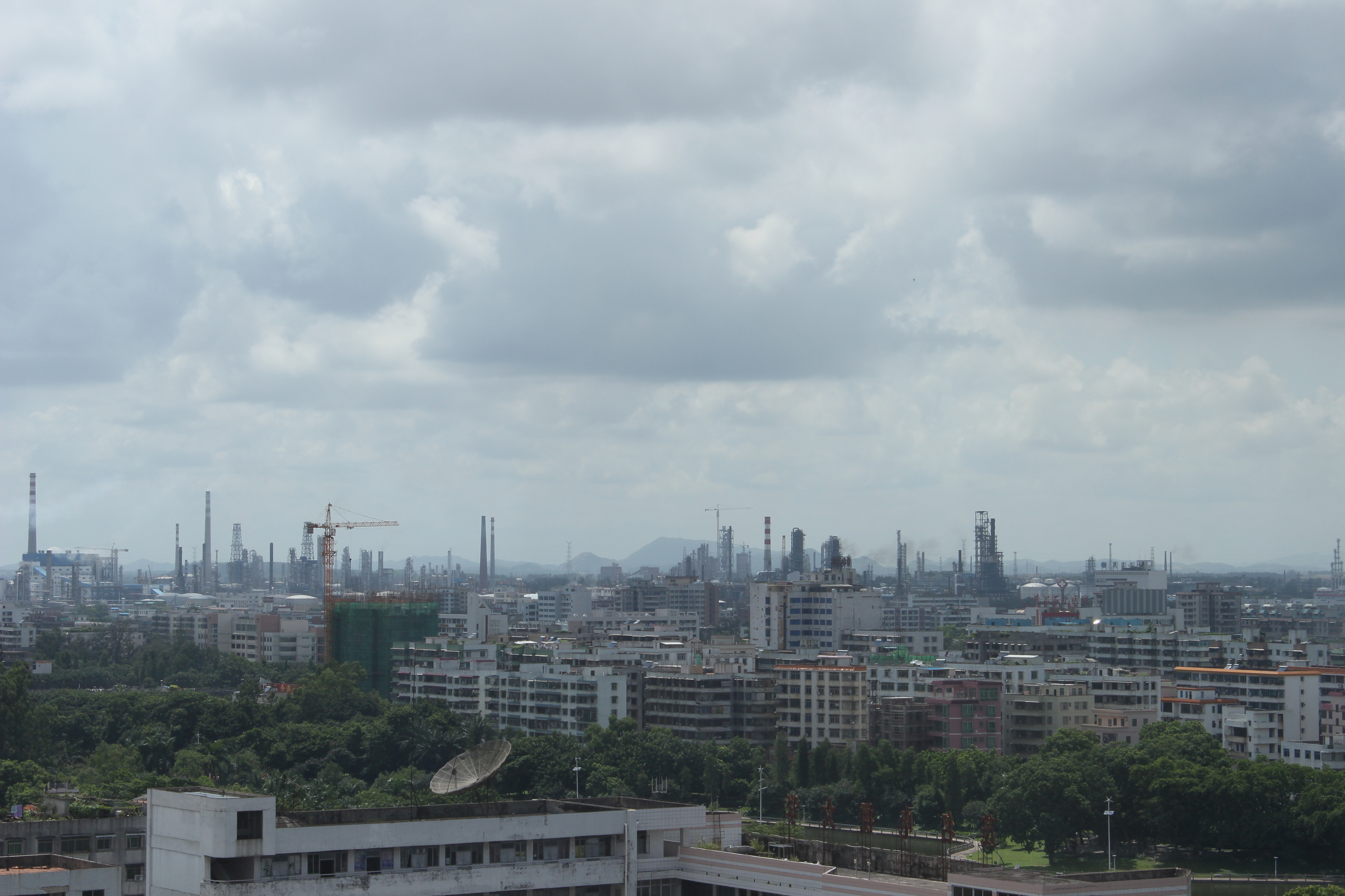 Old twon and industrial zone of Maoming City.